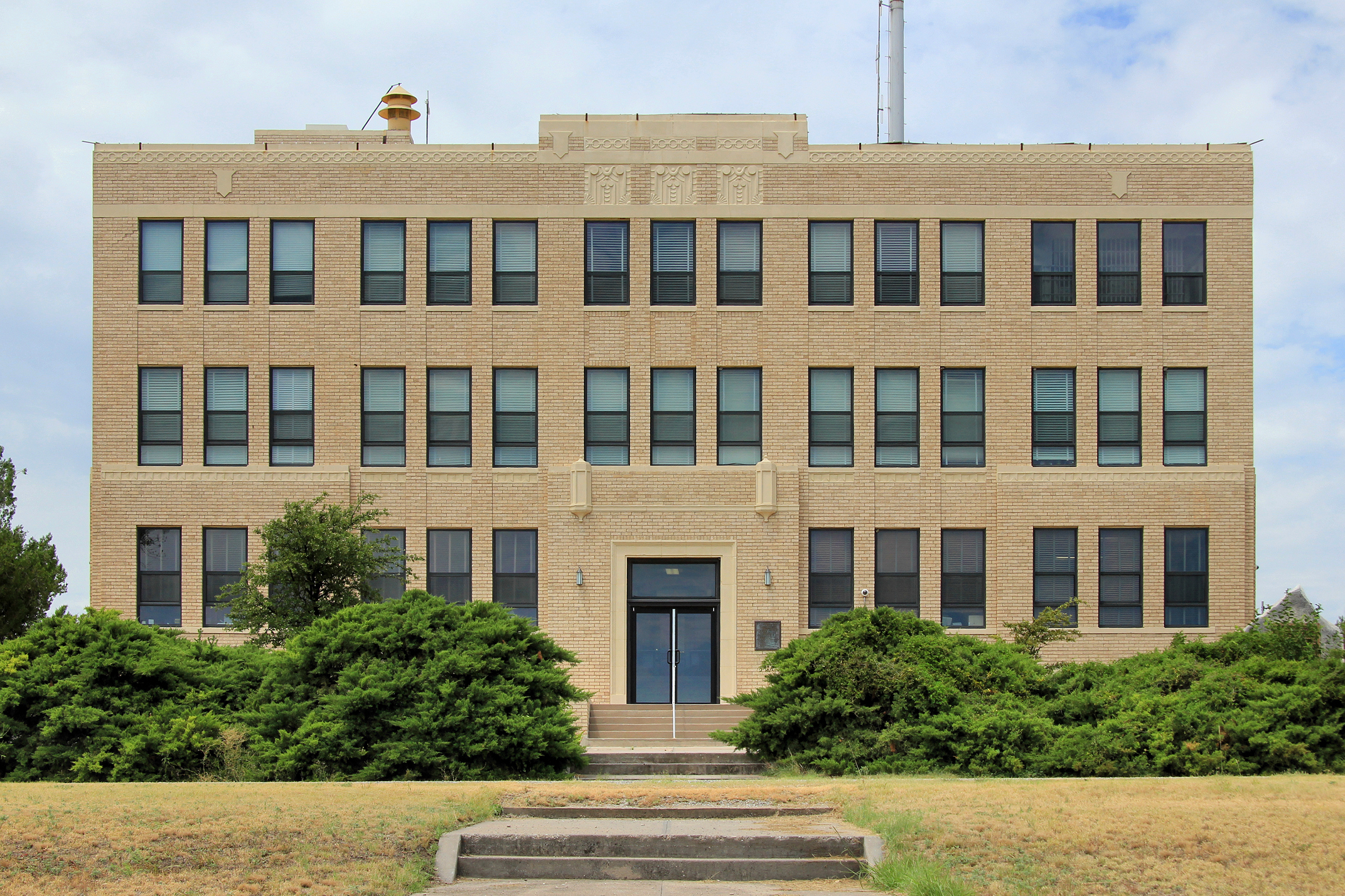 The Irion County Courthouse in Mertzon, Texas, United States.